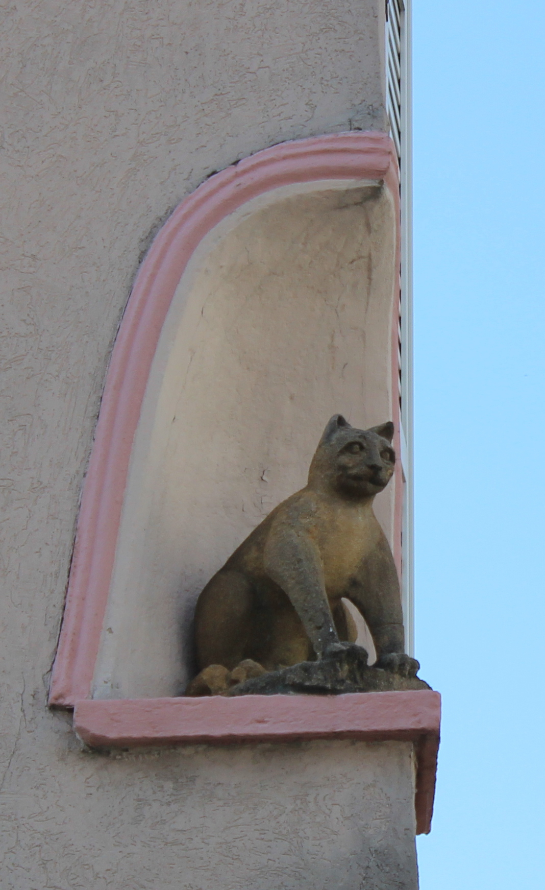 In an alcove, at the corner of a building, height, statue of a sit cat. We can see it partially turned on its right.